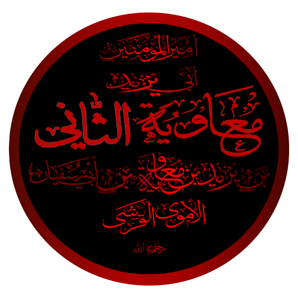 معاویه دوم